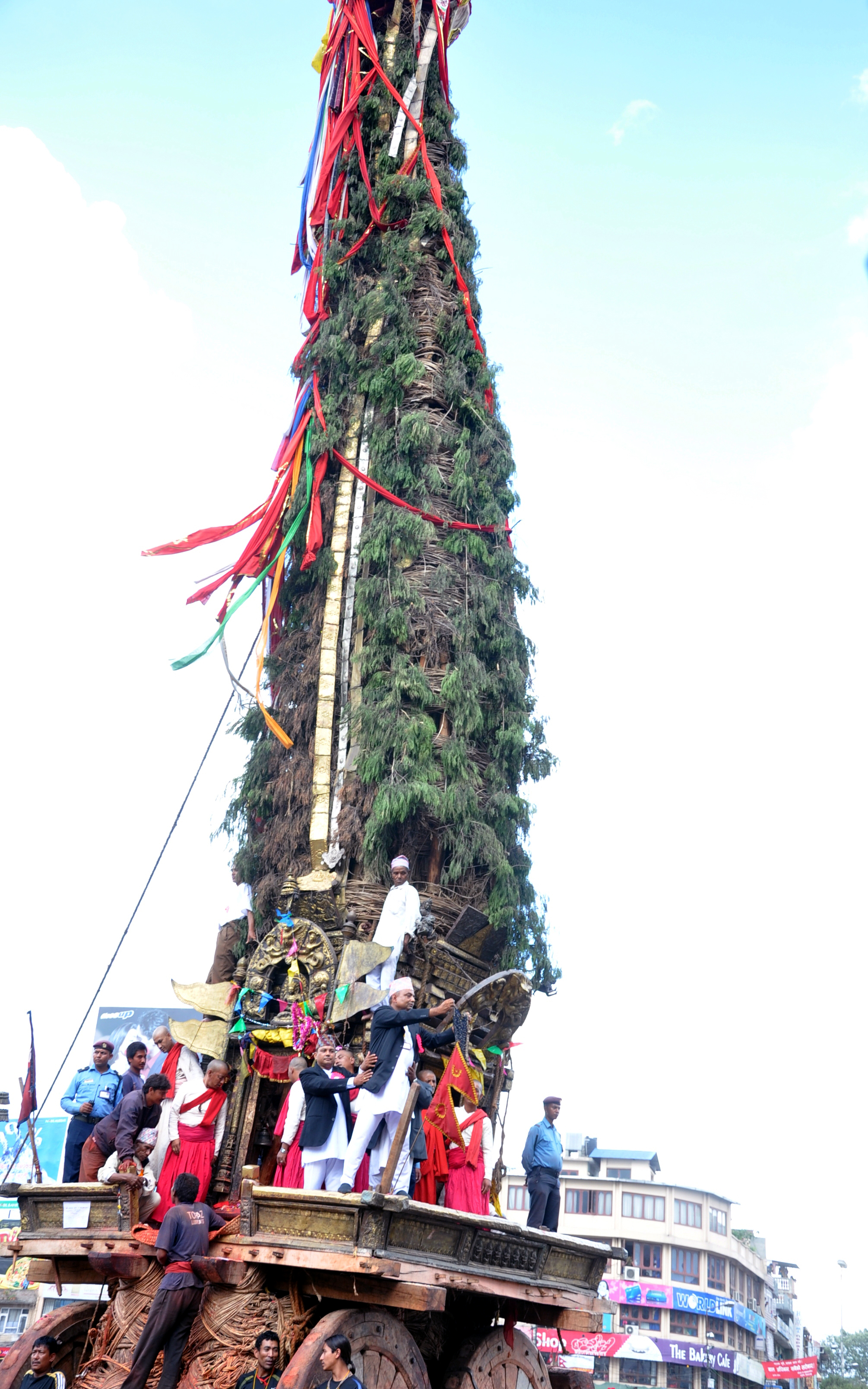 Machhindranath ratha Yatra (Tour)